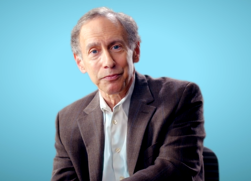 Photograph of Robert S. Langer, chemist, in the laboratory. The image is from a video about him and his work, entitledRobert Langer BioTech Awards Video.